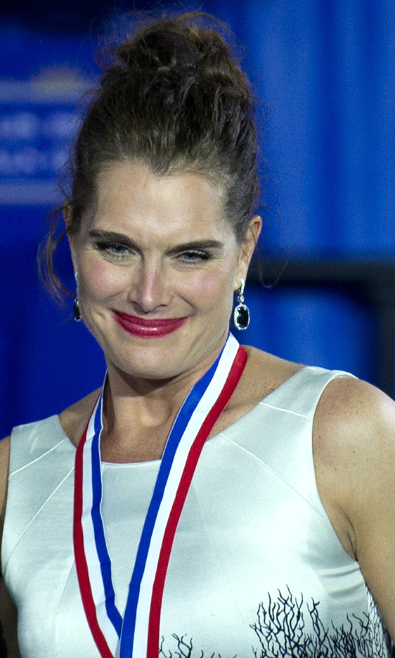 Actress Brooke Shields receives the Ellis Island Medal of Honor from an Army Special Forces soldier during a ceremony on Ellis Island in New York, May 12, 2012.